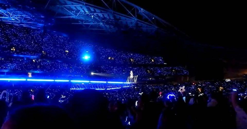 Taylor Swift - ANZ Stadium Concert 1989 World Tour